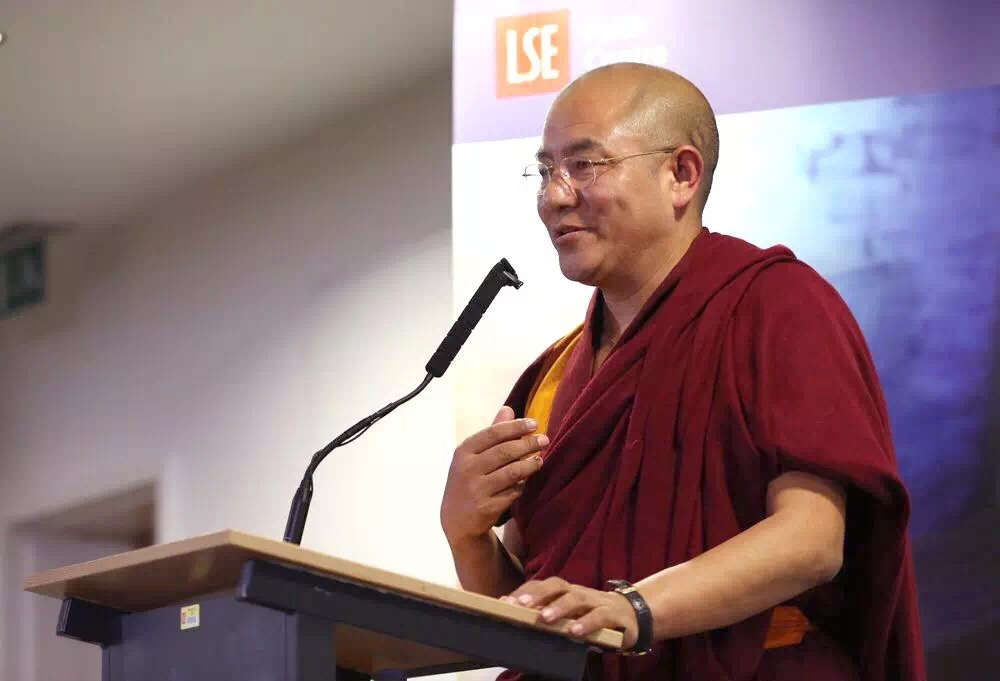 2015 Khenpo Sodargye Talk in UK